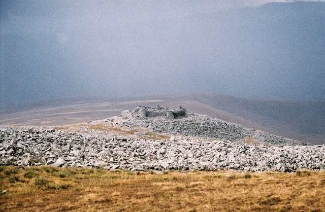 Abuli Fortress